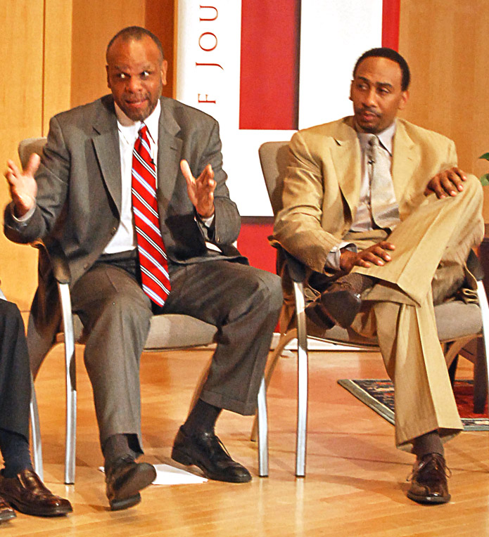 New York Times Columnist William C. Rhoden discusses how a lack of diversity in newsrooms negatively affects sports coverage during a Sept. 14, 2009 forum sponsored by the National Sports Journalism Center at IUPUI. Seated to Rhoden's left is former ESPN and current MSNBC contributor Stephen A. Smith.